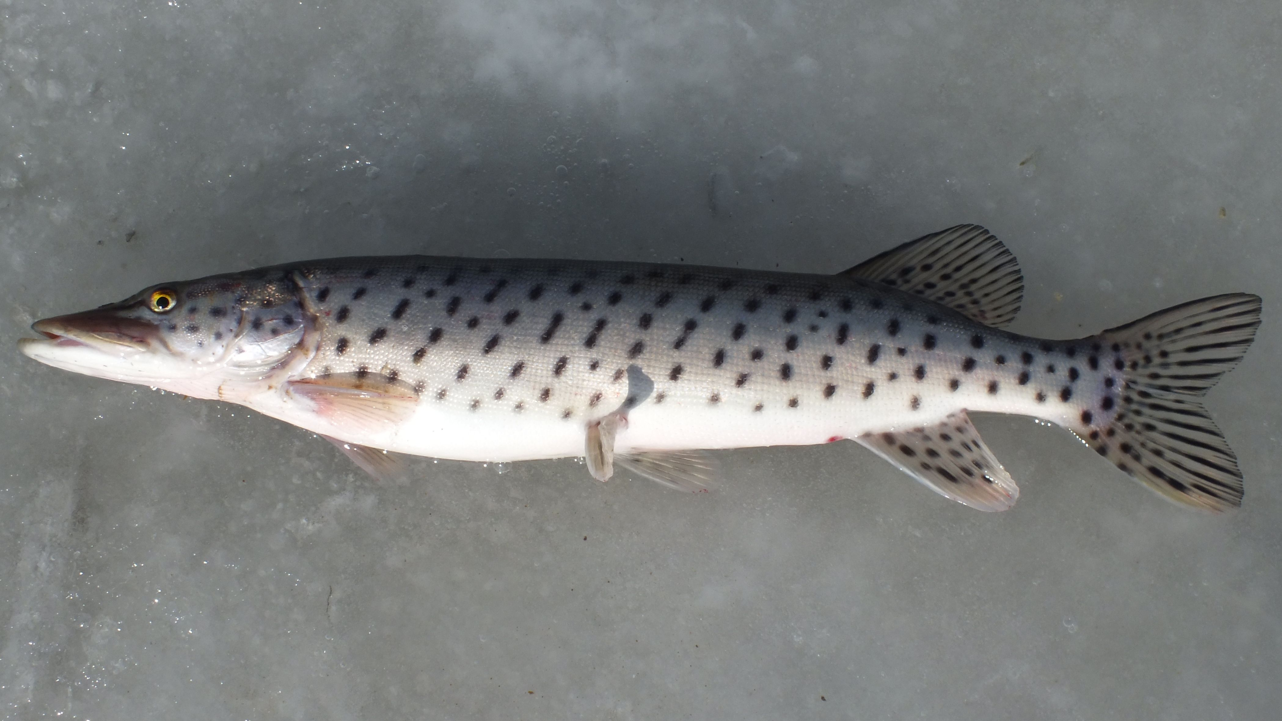 Esox reicherti